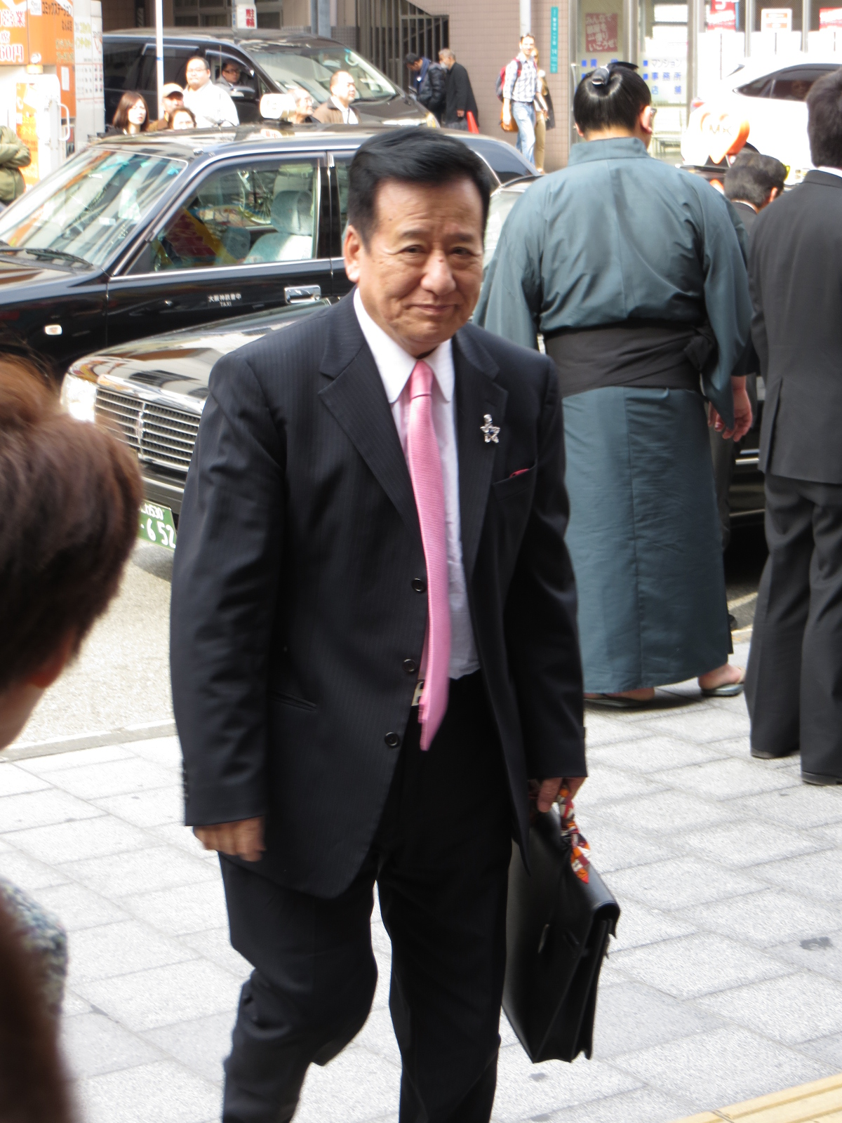 ようやく正月とか節分ネタが終わって、季節感ゼロの画像アップが再開します＾＾； 昨年の春場所にて＾＾